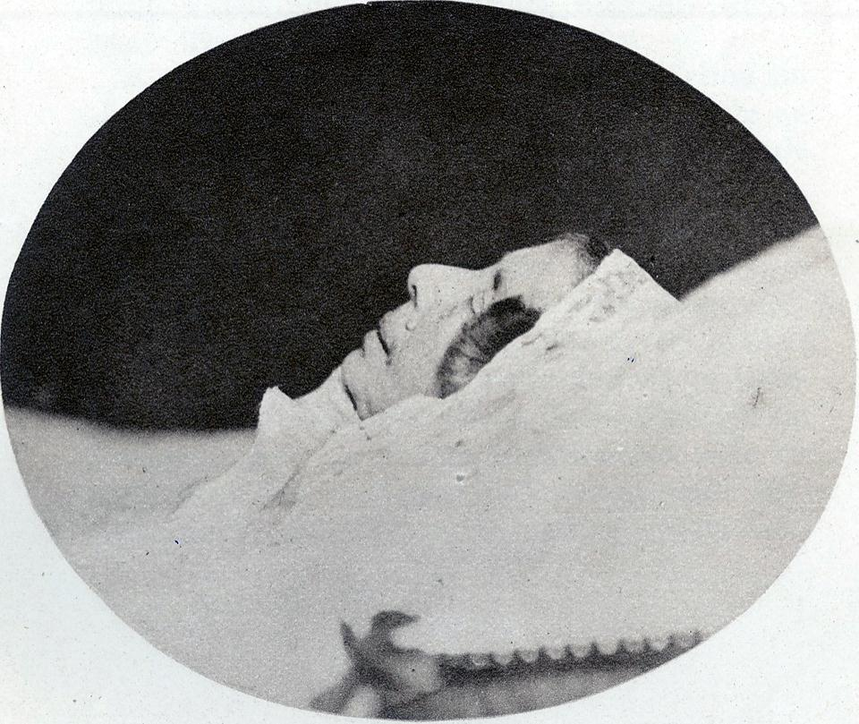 Queen Desideria of Sweden on her deathbed in 1860, as released by image scanner Ristesson